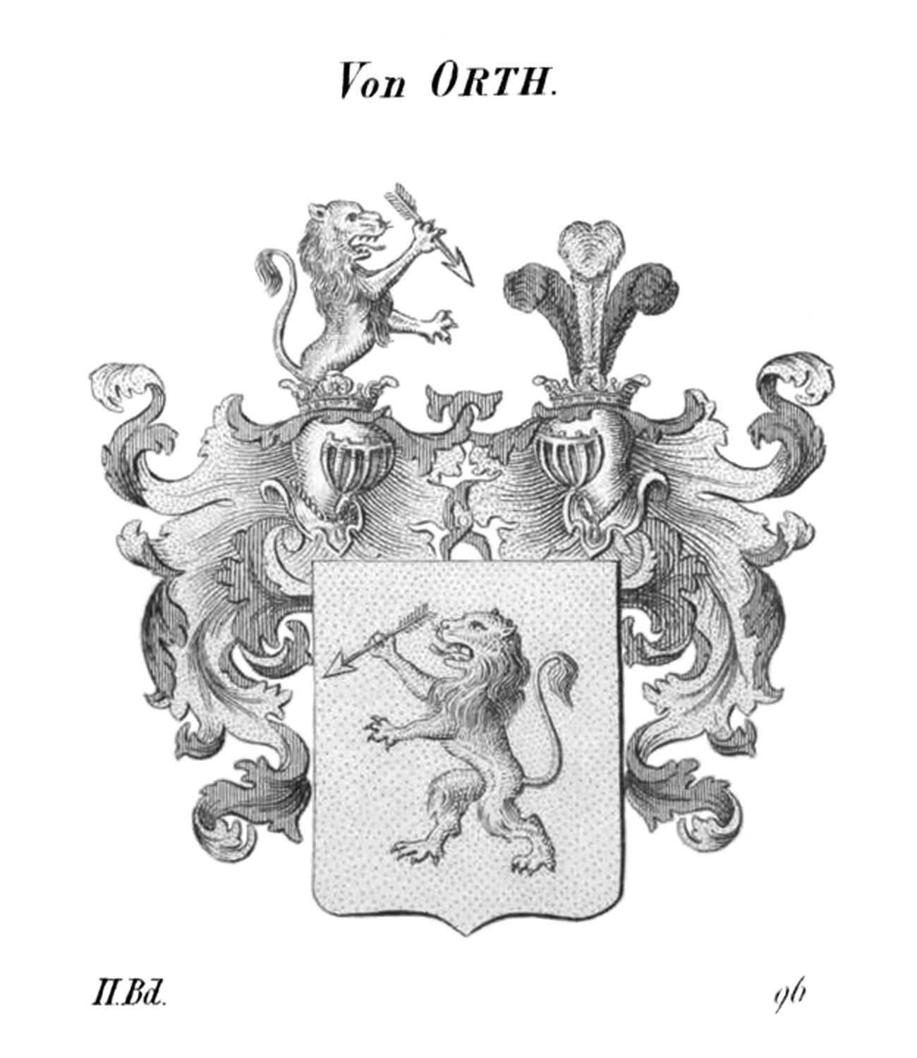 Coat of arms of Orth